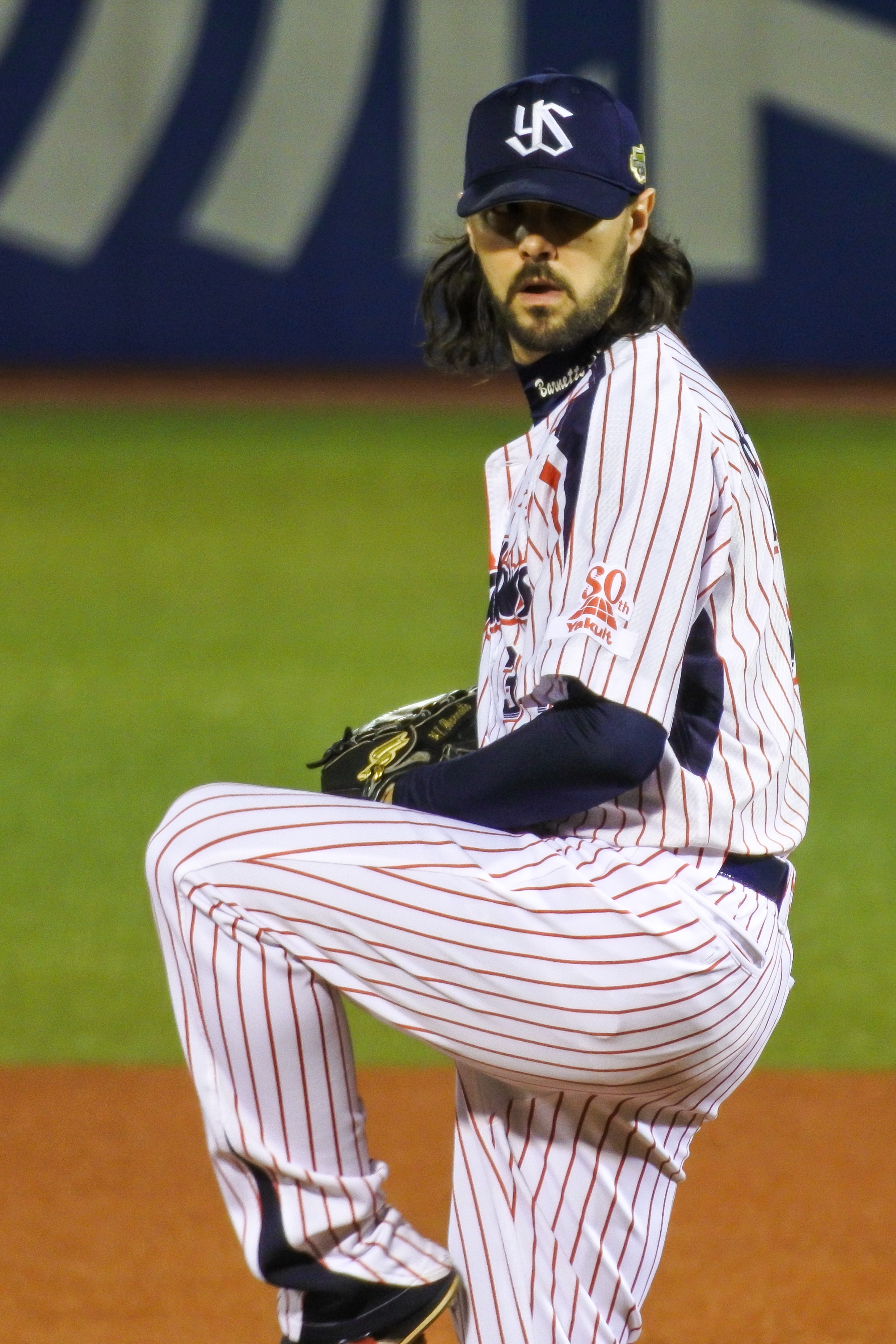 Tony Barnette, pitcher of the Tokyo Yakult Swallows, at Meiji Jingu Stadium